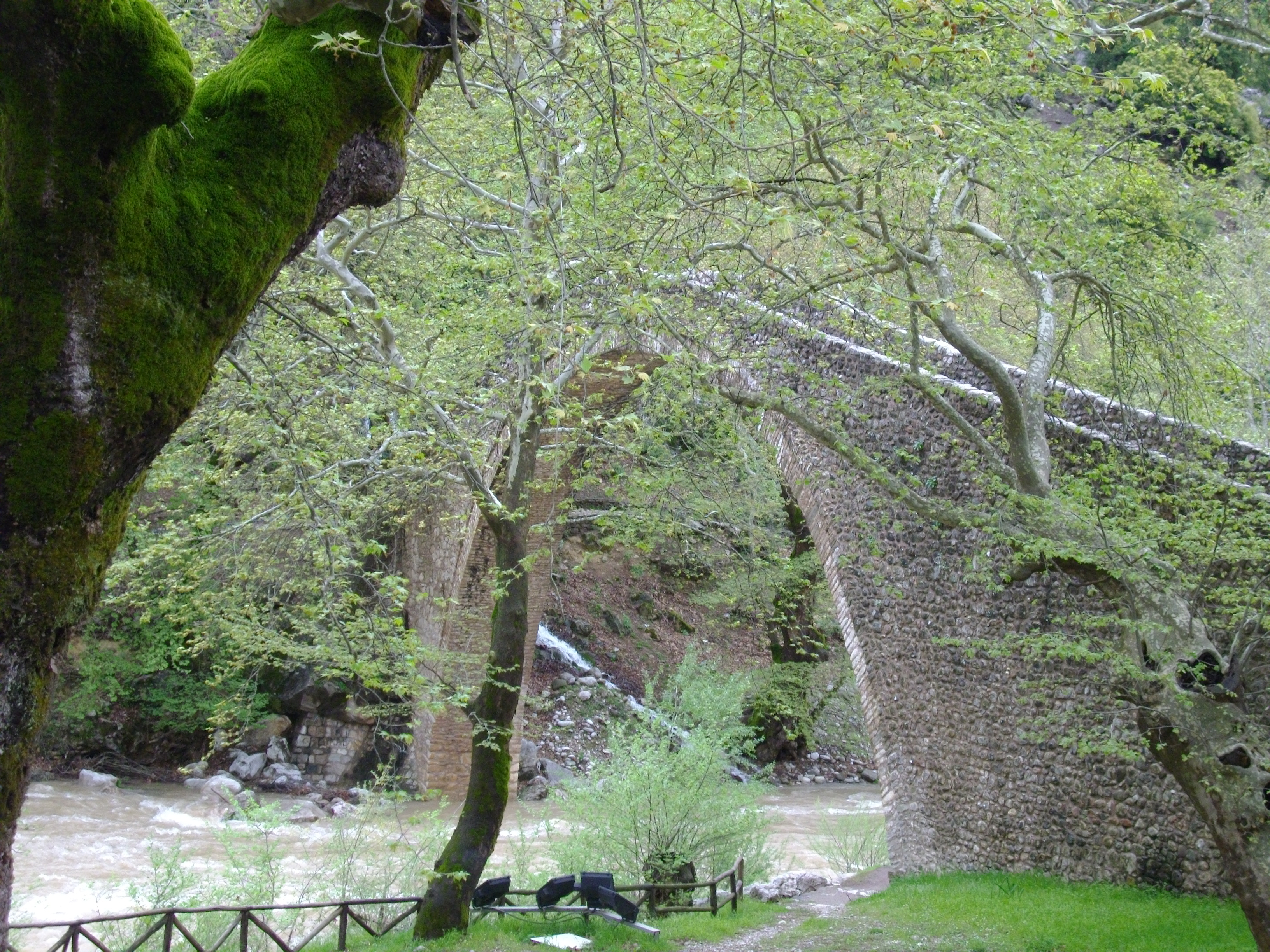 Vissarion Bridge on Portaikos river, Pyli, Trikala. Greece